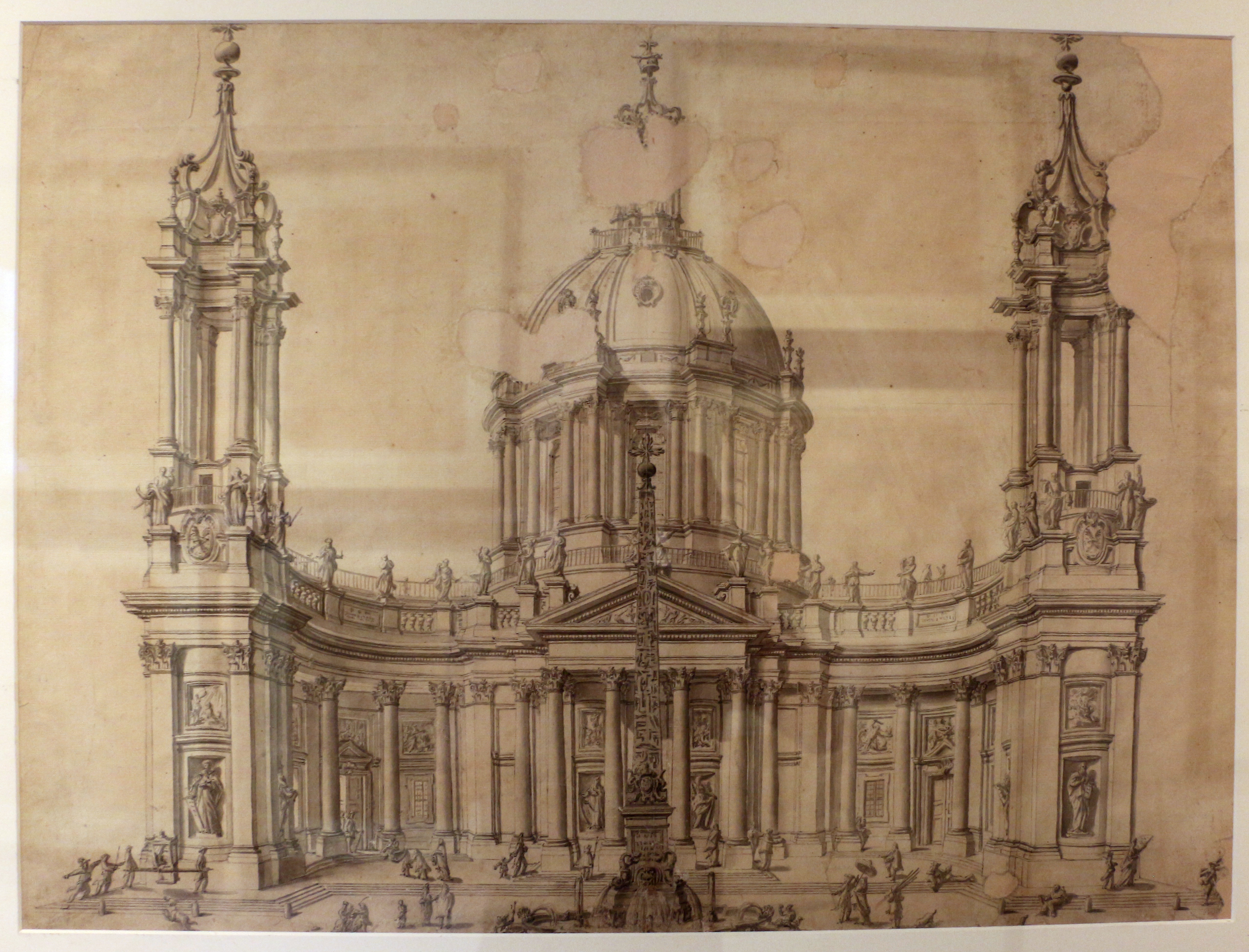 Accademia di San Luca - Gallery